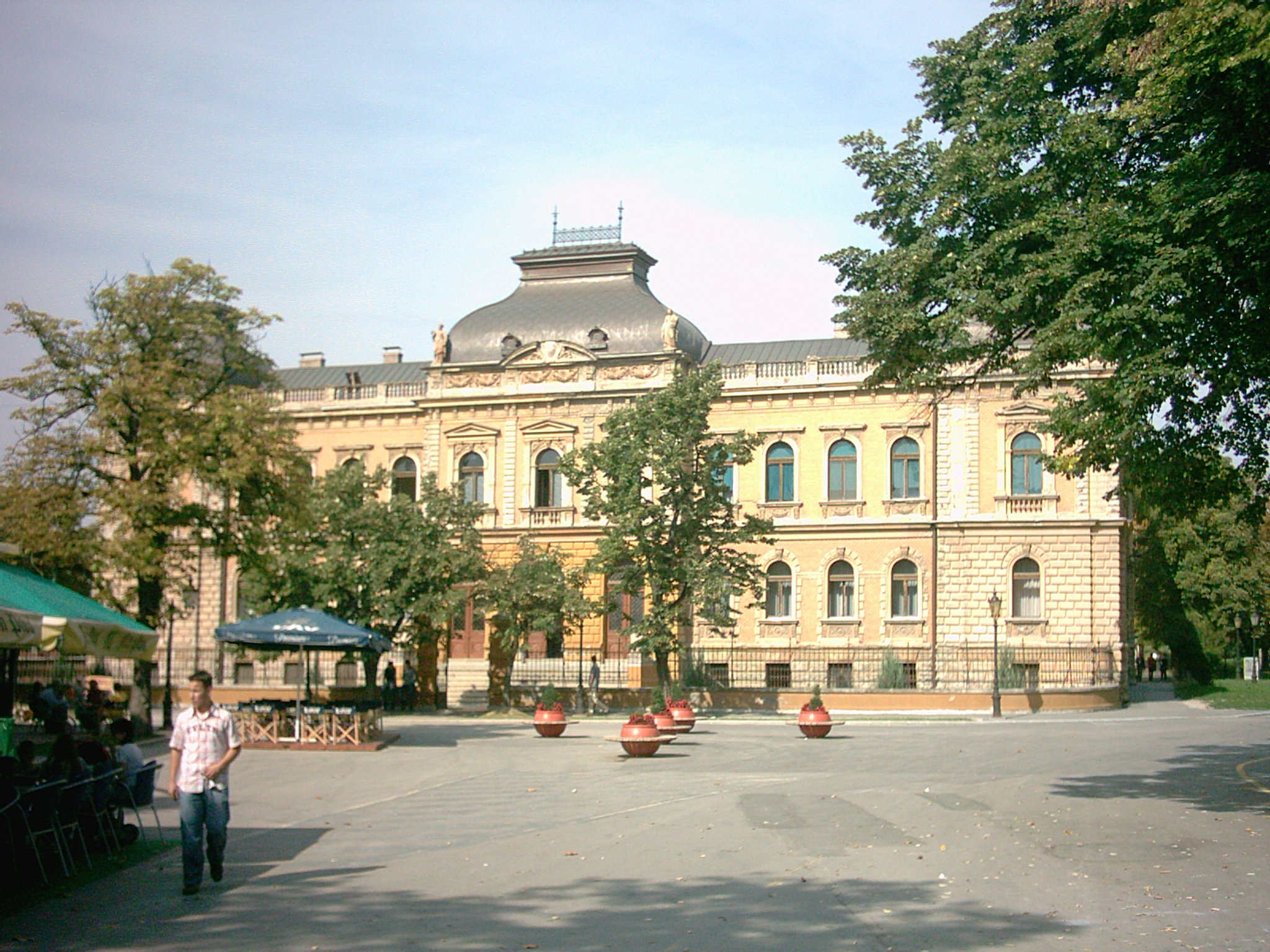 The Clerical High School of Saint Arsenije in Sremski Karlovci, Vojvodina, Serbia.